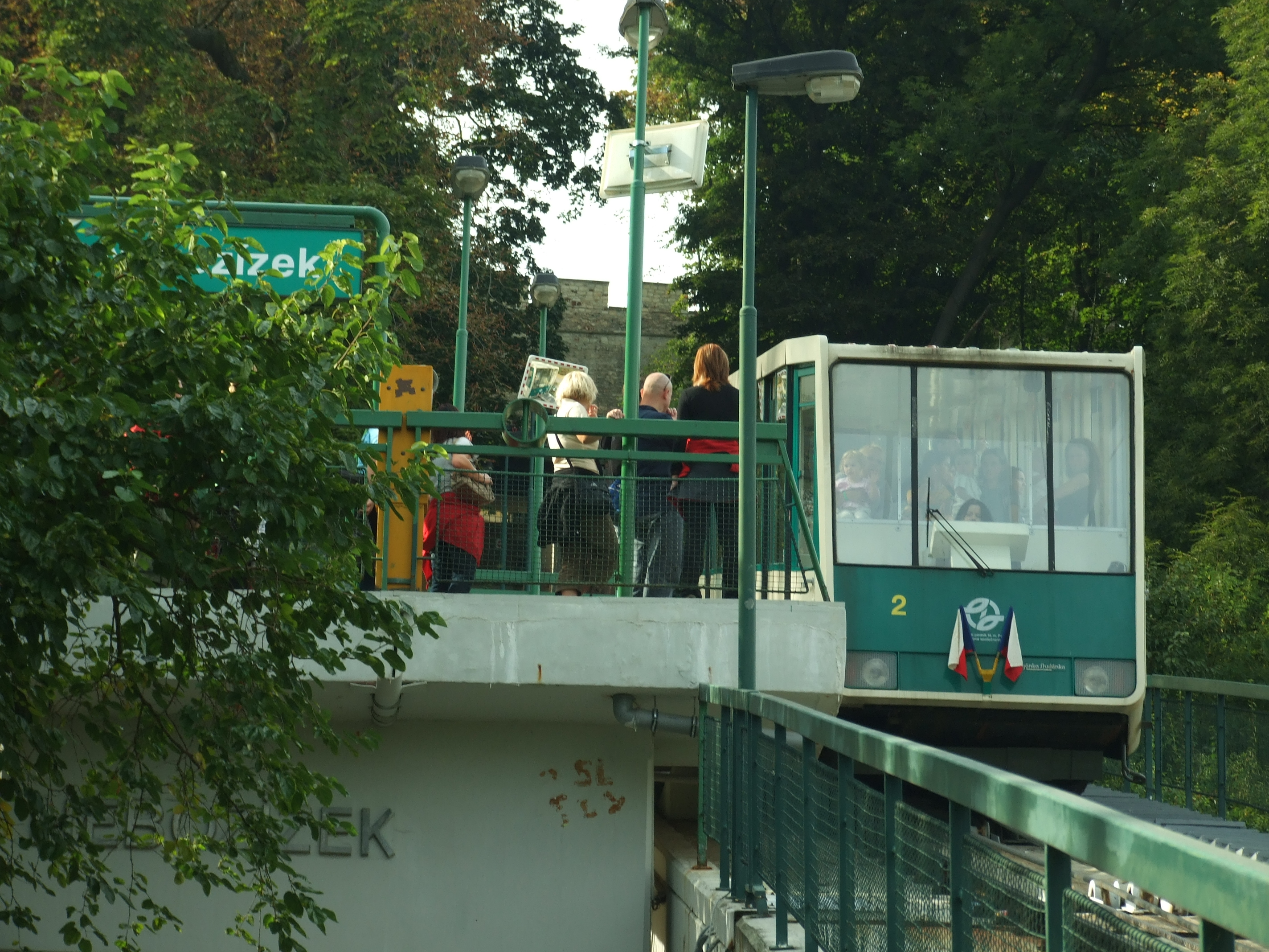 Petřín funicular - Nebozízek station in Prague, CZhelp